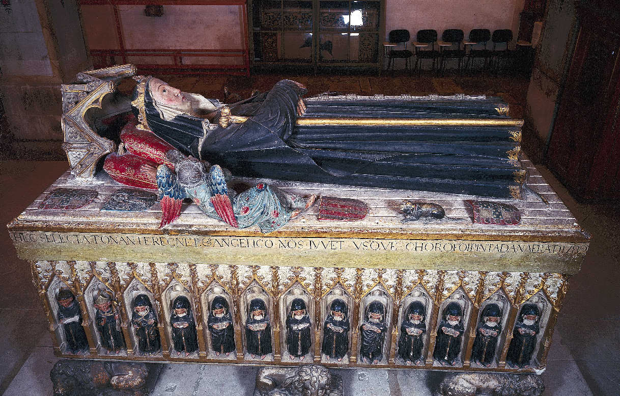 Sarcophag of Saint Elizabeth of Aragon, Queen of Portugal, by Master Pero, 1330, in Santa Clara-a-Nova at COimbra